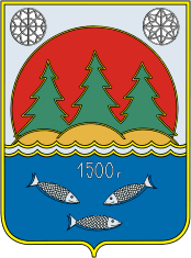 Toksovo (Leningrad oblast), coat of arms (2005)